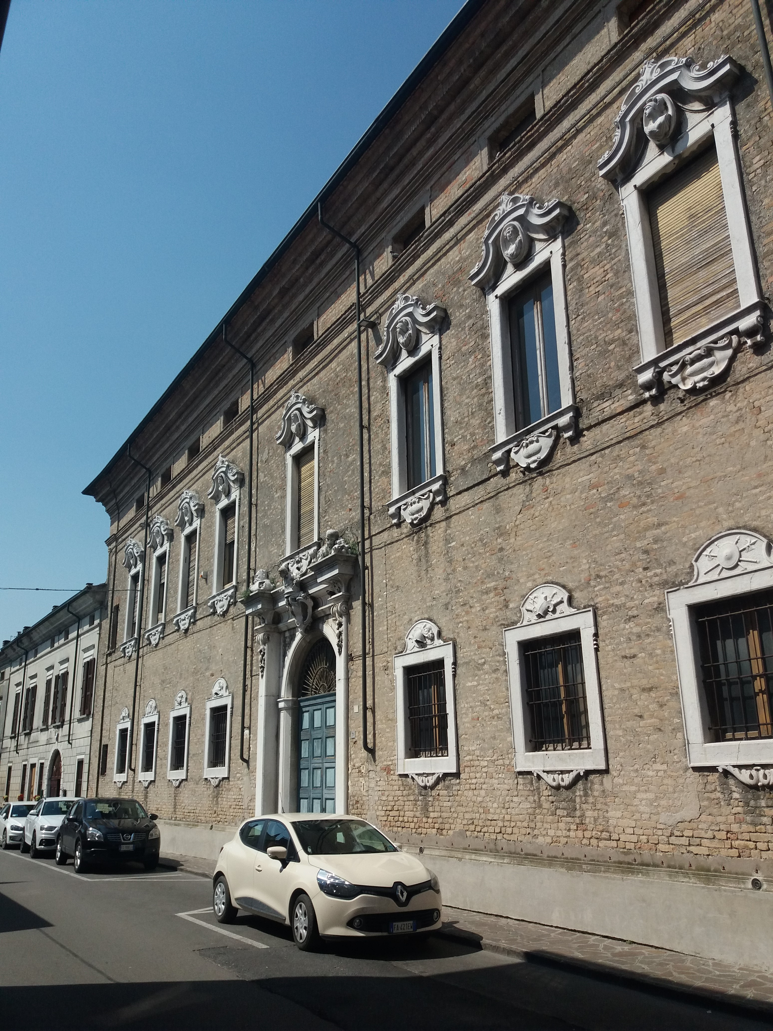 Asola - Palazzo Beffa